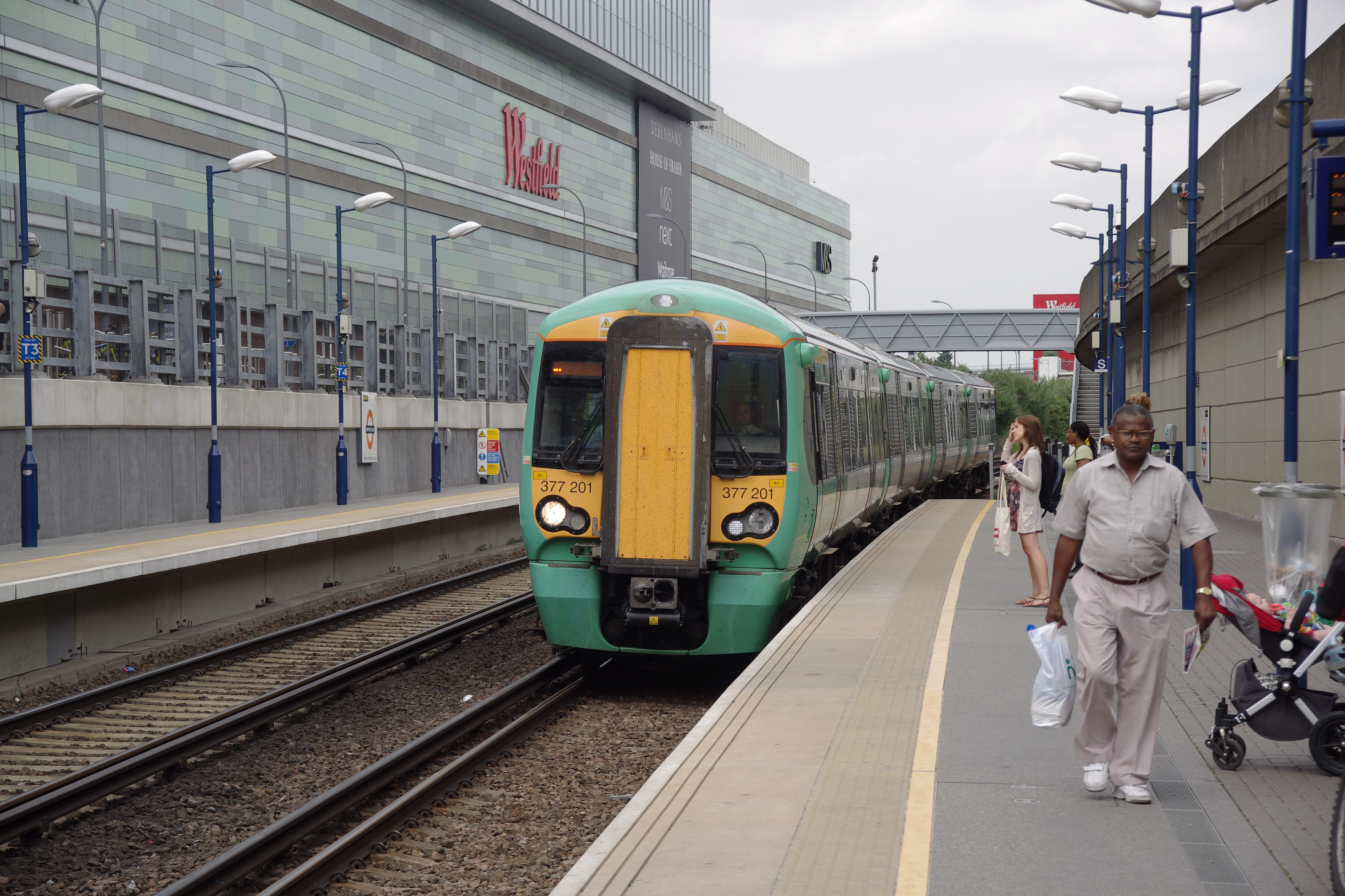 Southern unit 377201 arrives at Shepherd's Bush with a service to Croydon.